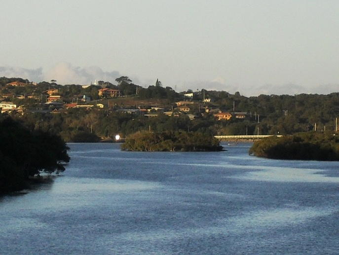 Snake Island in the middle of the river, to the right is Bird/Pelican/Weeping Island and in the background is the Dirawong.